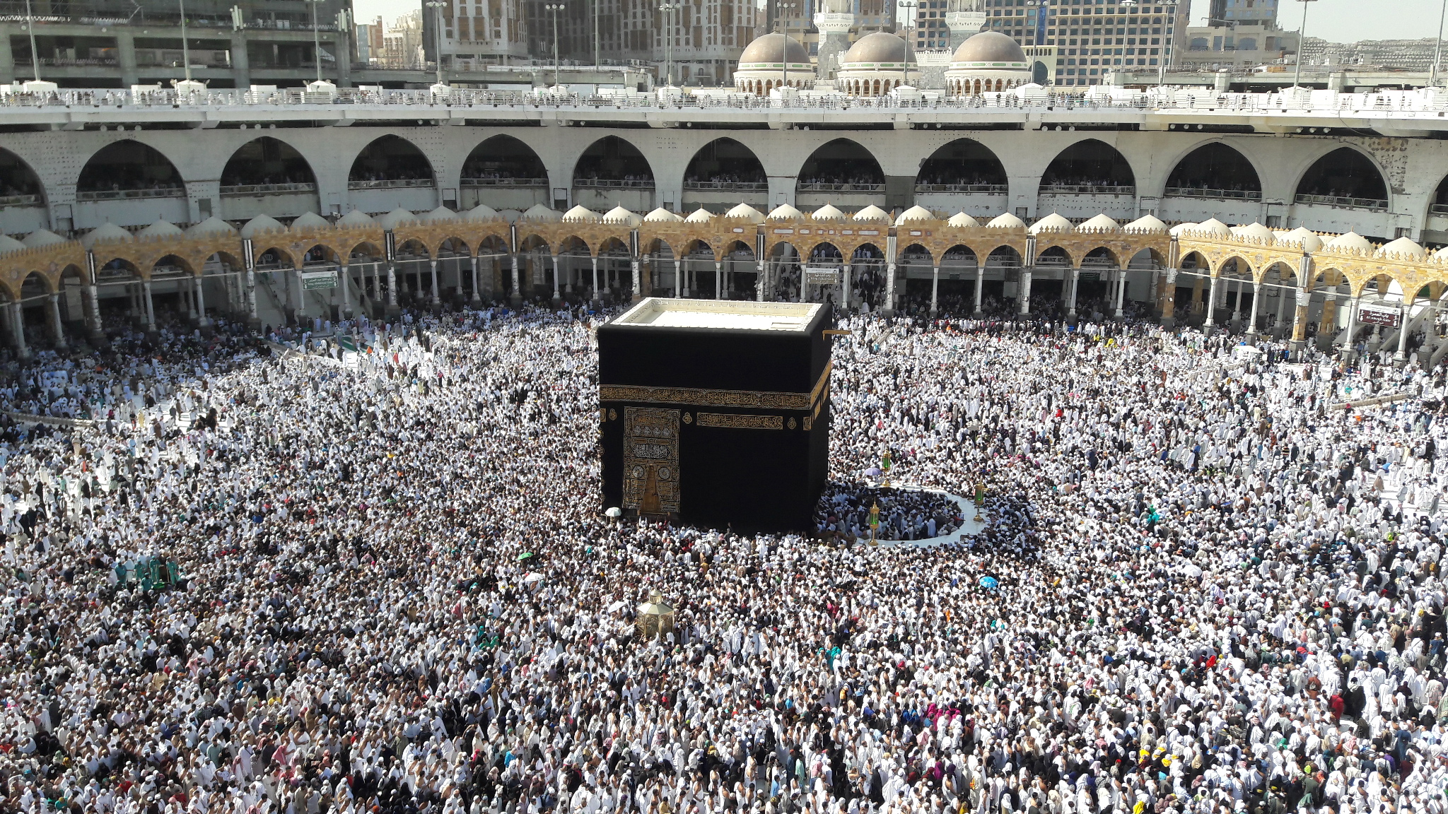 Kaaba